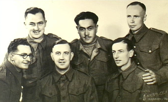 group photograph of six Commonwealth POWs at German POW Work Camp 1046 GW in 1944